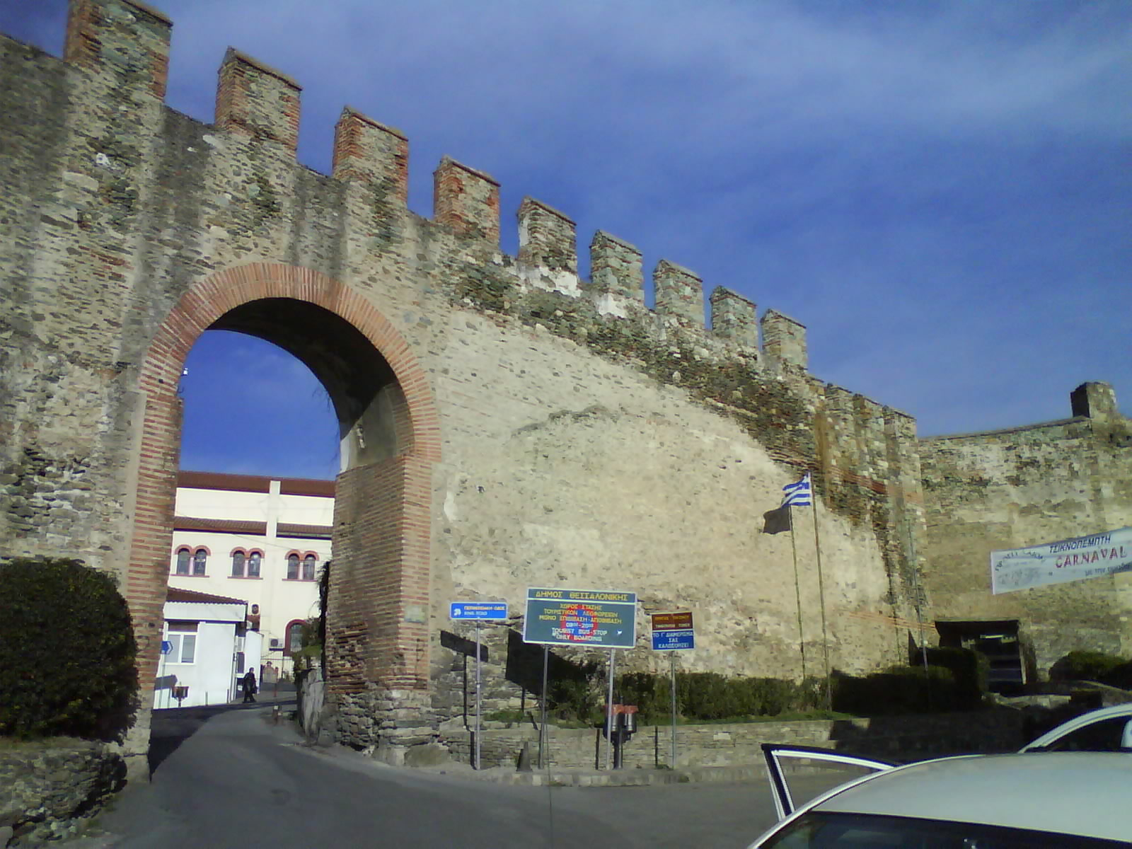 Thessaloniki walls